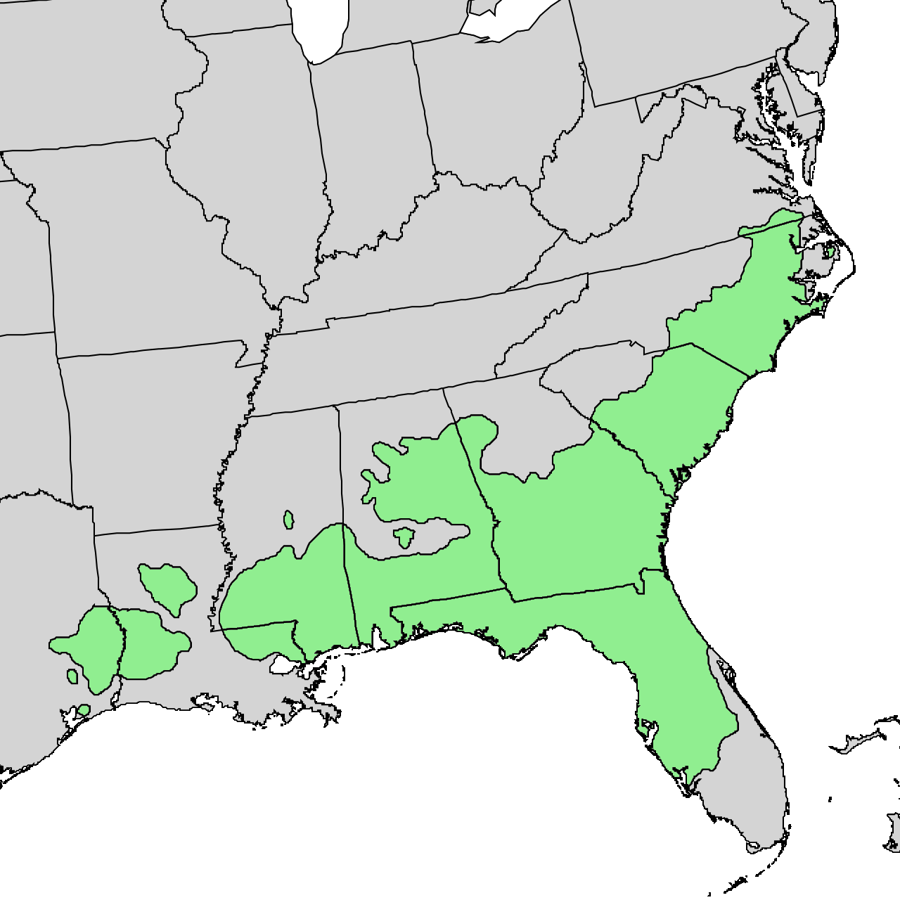 Natural distribution map for Pinus palustris